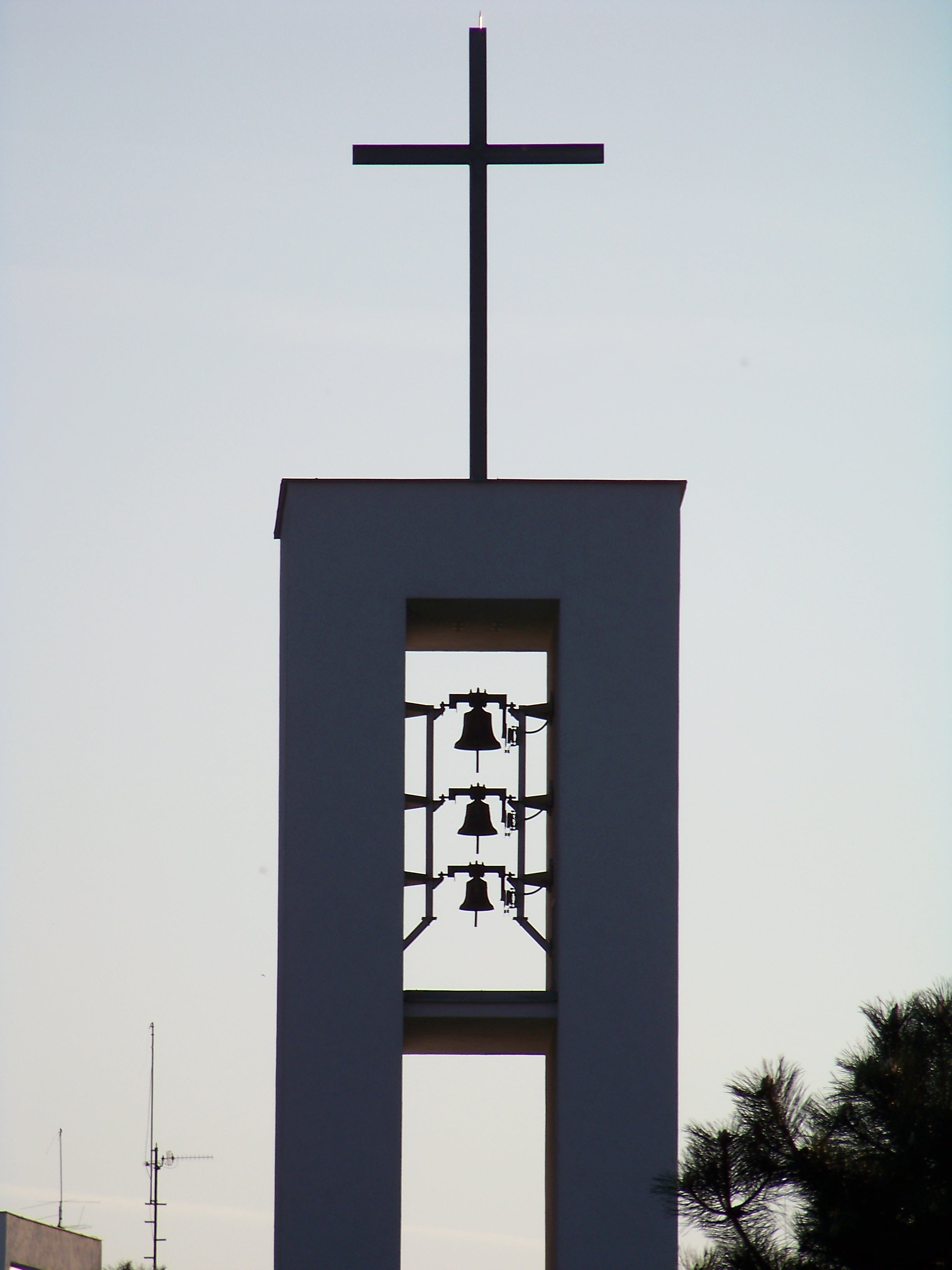 Chodov, Prague, the Czech Republic. Opatov Housing Estate, the bell tower of the church community centre. - Google Maps - Google Earth